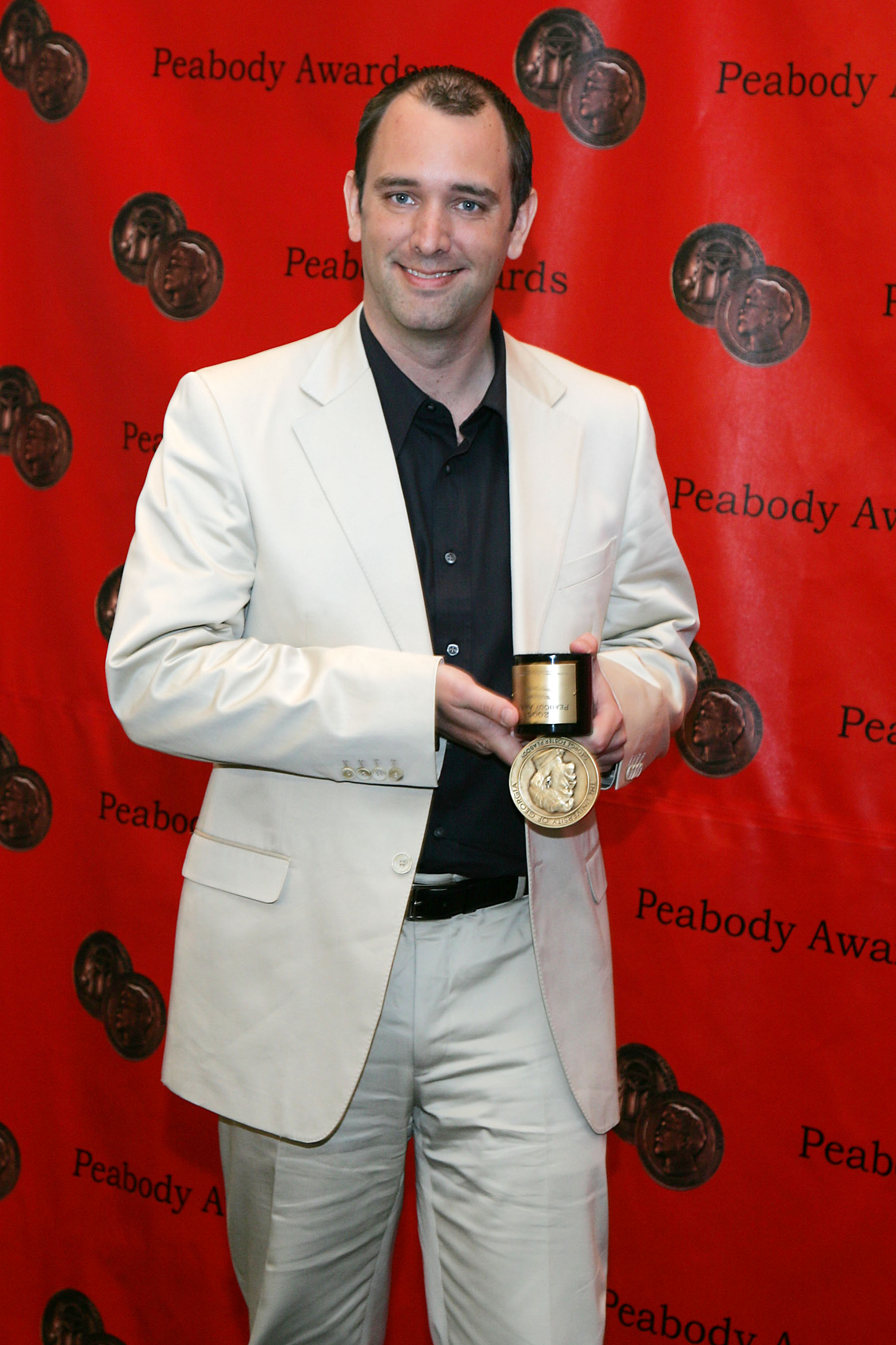 65th Annual Peabody Awards Luncheon Waldorf=Astoria Hotel New York, NY USA June 5, 2006